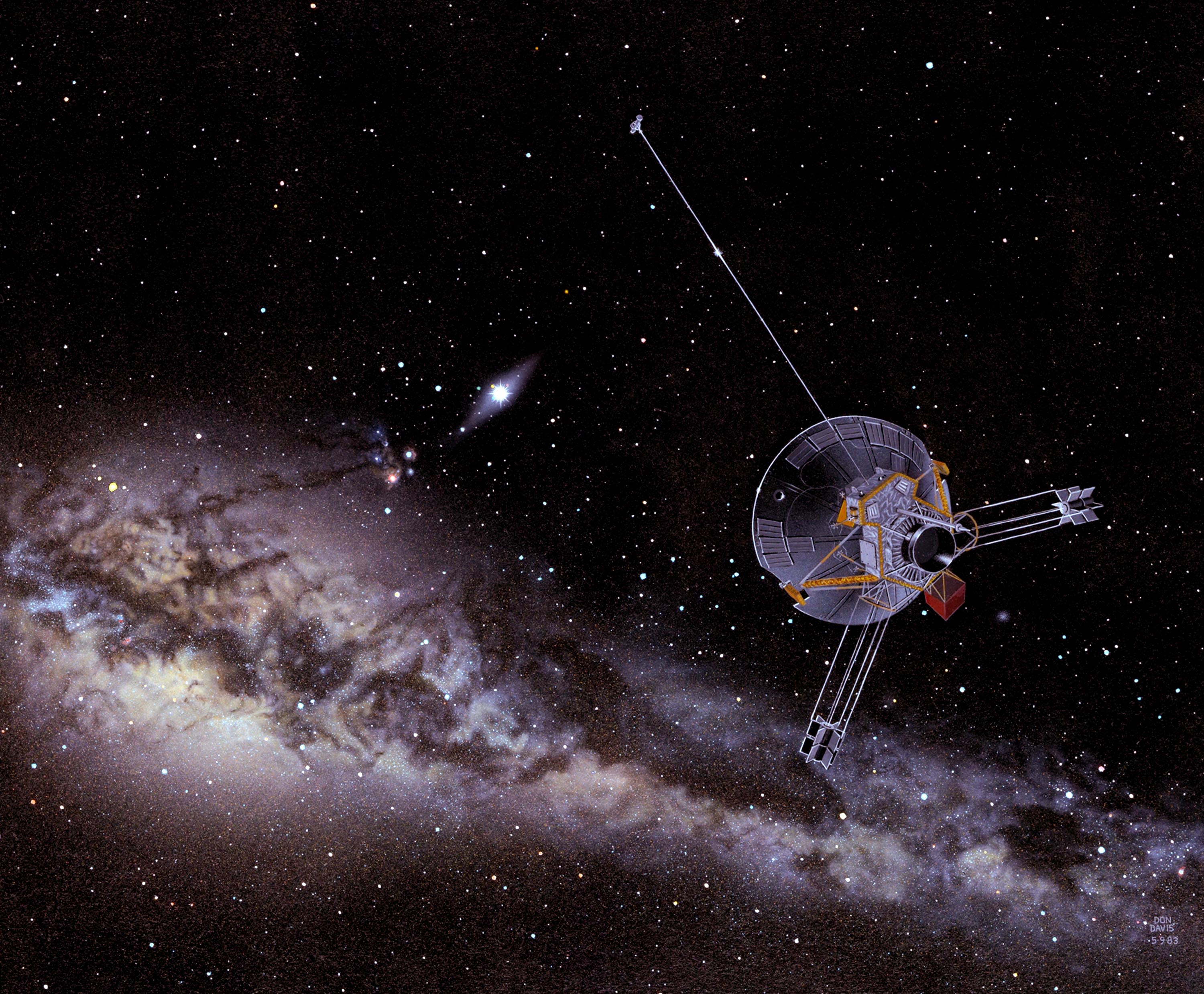 An artist's impression of Pioneer 10 looking back on the inner Solar while on its way to interstellar space.